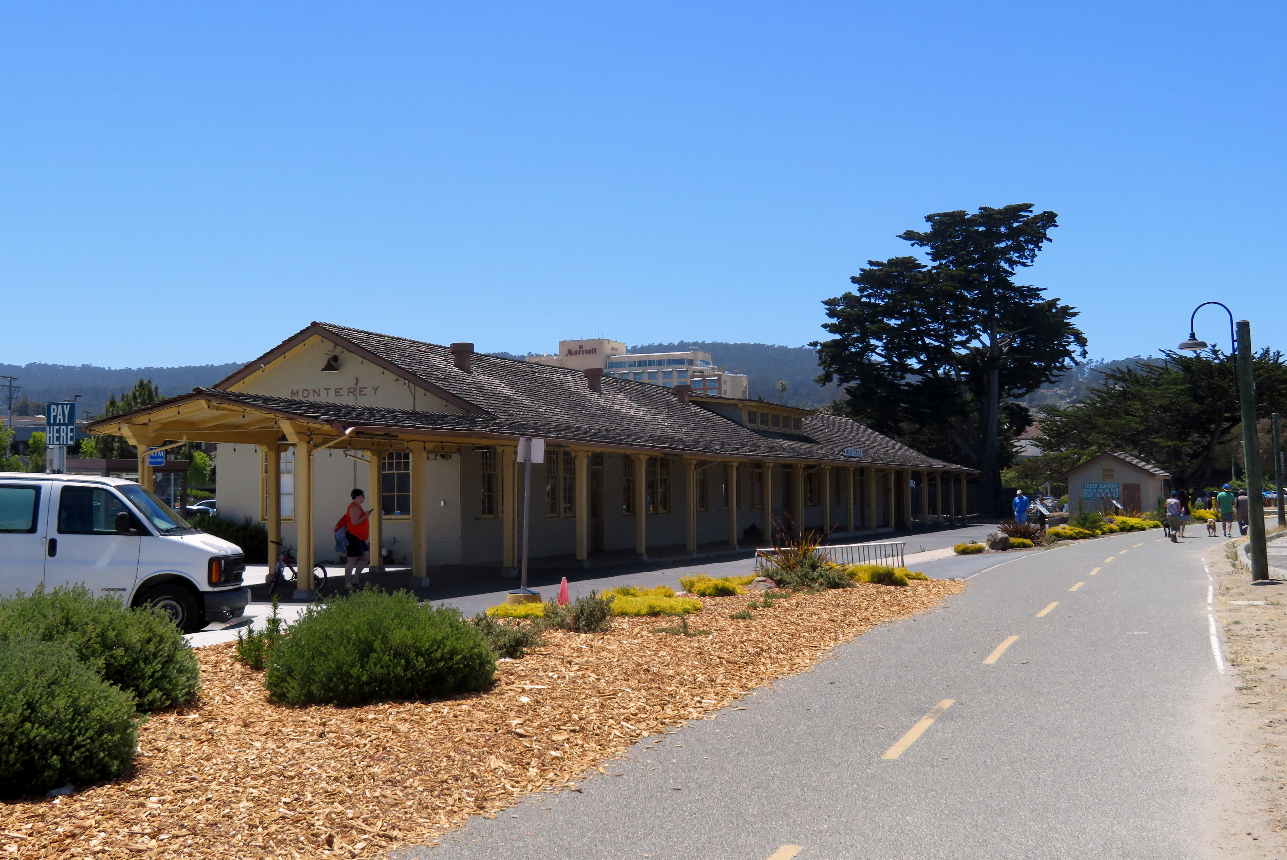 The former Monterey station and the Monterey Bay Coastal Trail in June 2018